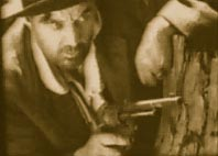 This is a promotional and/or screen shot from the 1920 Australian film The Kelly Gang. The actor is Godfrey Cass, playing Ned Kelly.